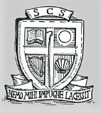 2nd coat of arms of the St. Columban's School (present day CAISL)